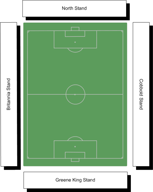 A schematic of Portman Road, Ipswich Town Football Club's stadium, correct as of January 2008